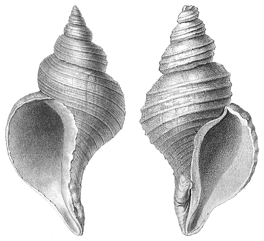 Example of left- and right coiling in gastropods: figure at left side: Neptunea angulata (=contraria auct.) as left coiled; figure at right side: Neptunea despecta as right coiled species. Both are fossil from Pliocene deposits near Antwerp (Belgium), North Sea Basin.